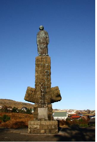 Minnisvarðin in Viðarlundini, Tórshavn.